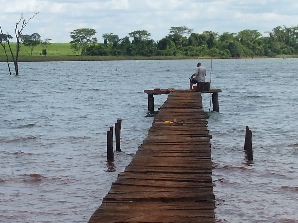 River Grande Funny